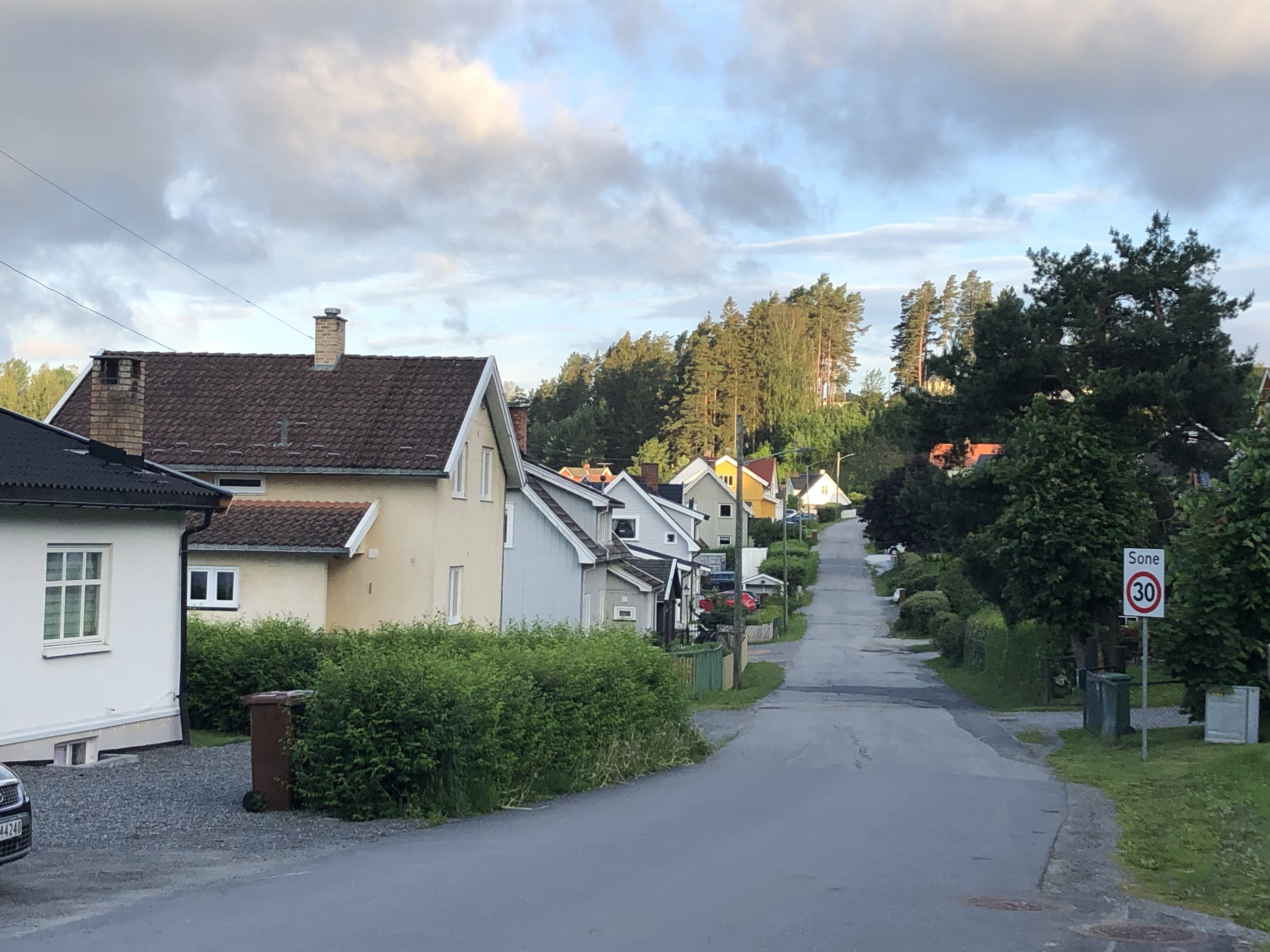 Myrveien, Hønefoss, Norway.